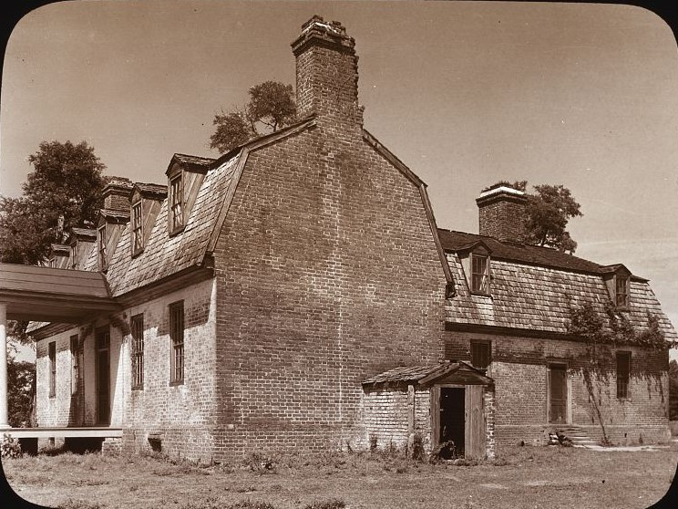 Title [Wilton-on-the-Piankatank, Middlesex County, Virginia. Side yard] Contributor Names Johnston, Frances Benjamin, 1864-1952, photographer Created / Published [1935] Subject Headings - Houses--Virginia--Middlesex County--1930-1940 - Gambrel roofs--Virginia--Middlesex County--1930-1940 - Brickwork--Virginia--Middlesex County--1930-1940 Format Headings Lantern slides--1930-1940. Notes - On slide (handwritten): "Wilton on the Piankatank. Middlesex." - Slide for lecturing on "Tales Old Houses Tell." - Title and date based on same image in the Carnegie Survey of the Architecture of the South, LC-J7-VA-2149, with additional information from Sam Watters, 2011 . - Forms part of: Garden and historic house lecture series in the Frances Benjamin Johnston Collection (Library of Congress). - Formerly in Box 29. Medium 1 photograph : glass lantern slide, sepia-toned ; 3.25 x 4 in. Call Number/Physical Location LC-J717-X106- 32 [P&P] Repository Library of Congress Prints and Photographs Division Washington, D.C. 20540 USA Digital Id ppmsca 16602 //hdl.loc.gov/loc.pnp/ppmsca.16602 Library of Congress Control Number 2008675902 Reproduction Number LC-DIG-ppmsca-16602 (digital file from original item) Rights Advisory No known restrictions on publication. Online Format image Description 1 photograph : glass lantern slide, sepia-toned ; 3.25 x 4 in. LCCN Permalink